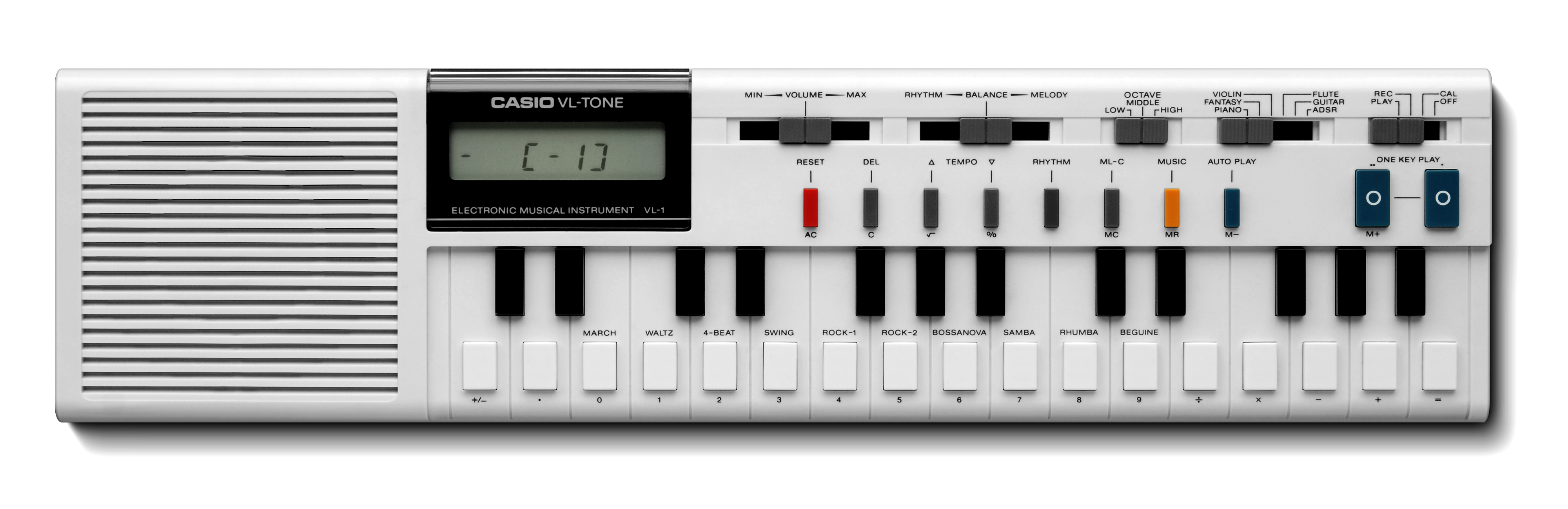 Casio VL-1 pocket synthesizer, released in 1980.